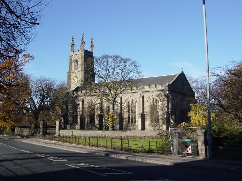 Church in Keith, Banffshire, Scotland